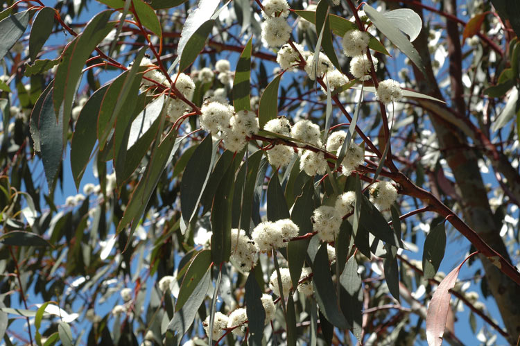 Flowers of Eucalyptus pauciflora subsp. pauciflora in Kosciuszko National Park, Thredbo village, New South Wales